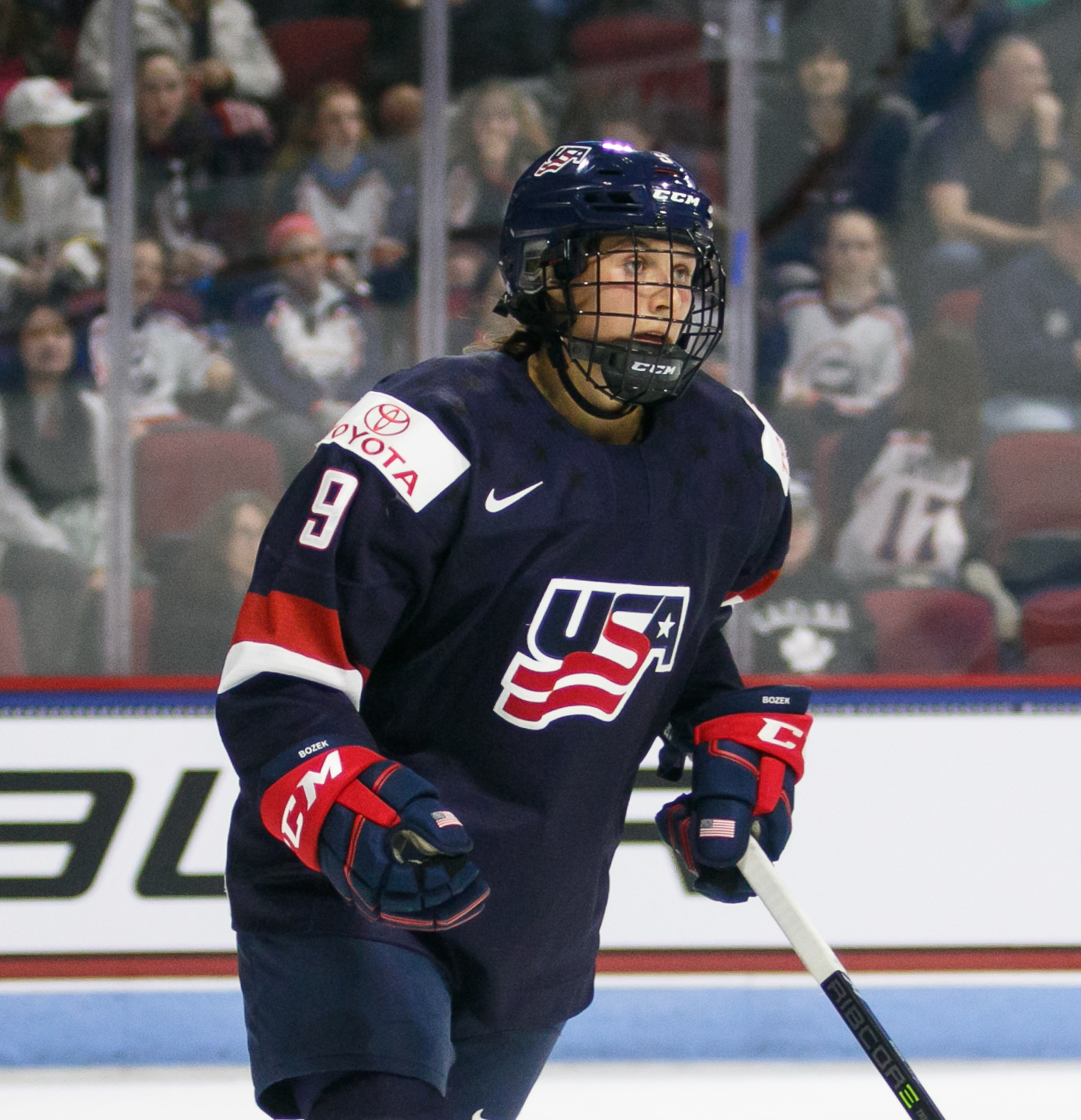 Team USA defender Megan Bozek (9)